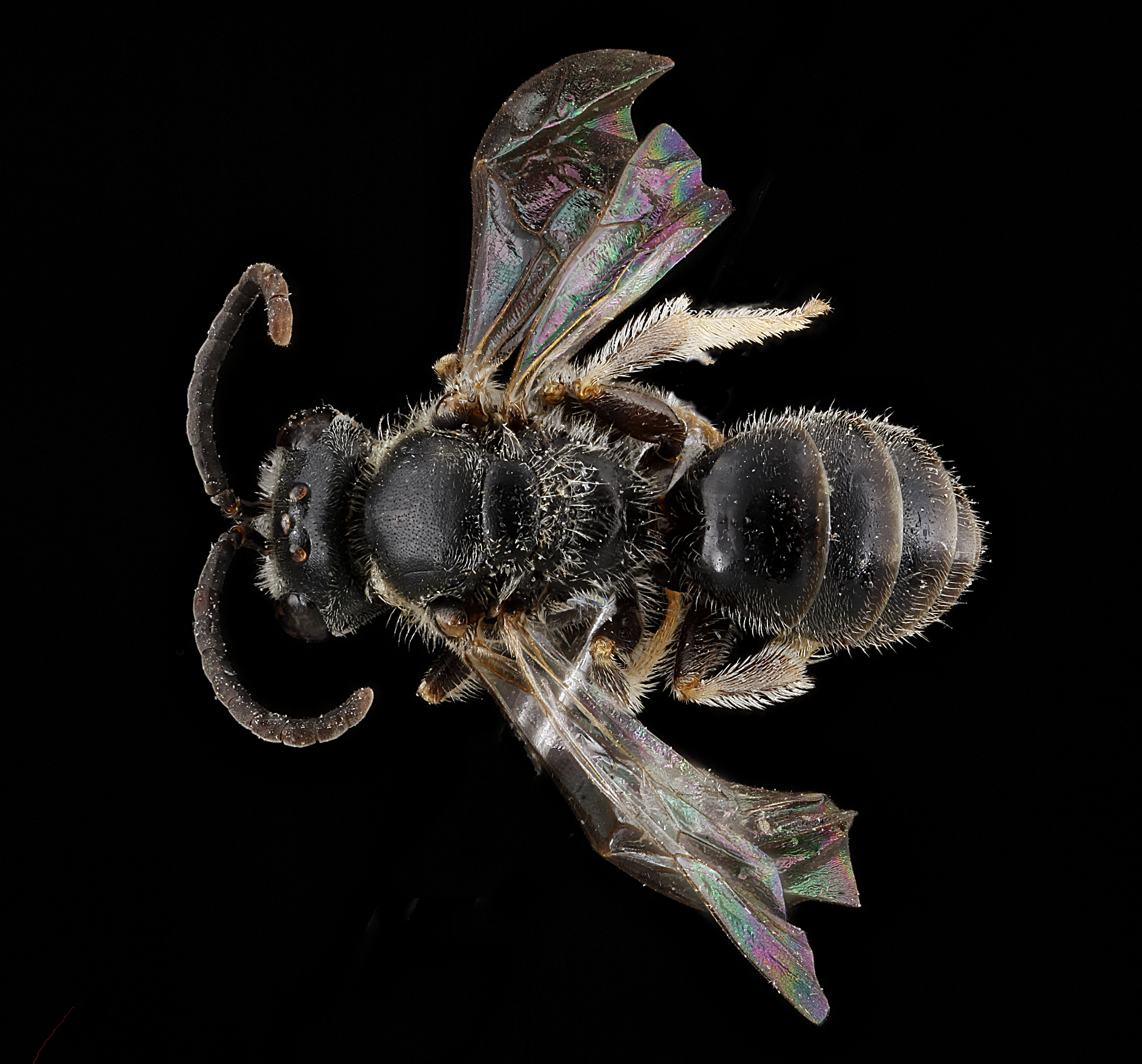 Lasioglossum sopinci, the undescribed male of this sand specialist, found along some lovely powerline...